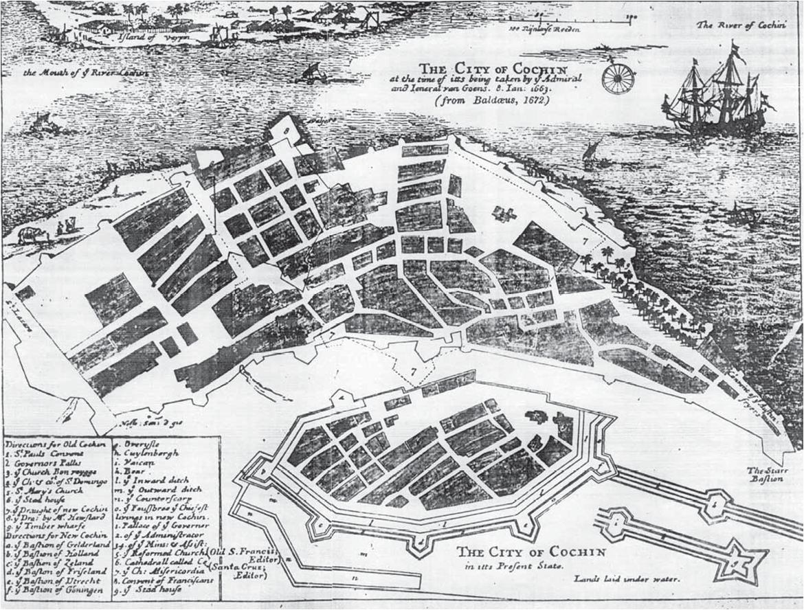 The old city map of Dutch occupied Fort Kochi Municipality in 1672